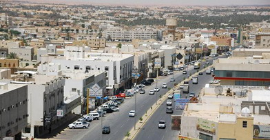 The Ambassador Al Shubeili St, Unaizah, Saudi Arabia